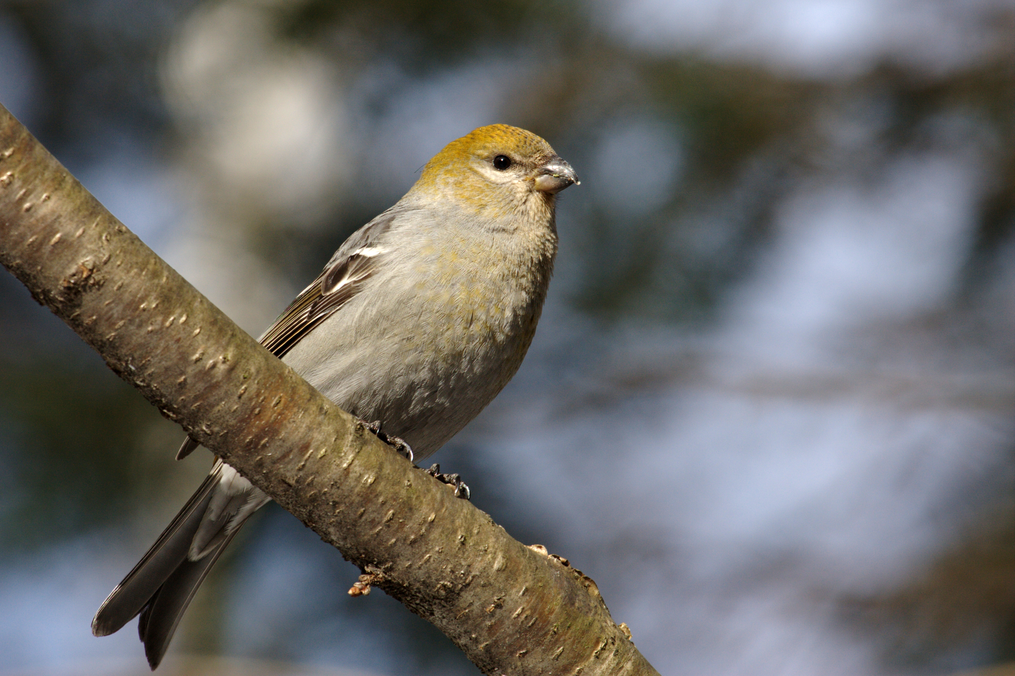 Pine Grosbeak (Pinicola enucleator), female or young male, Cap Tourmente National Wildlife Area, Quebec, Canada